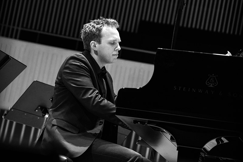 Calle Brickman in Aarhus Denmark 2018